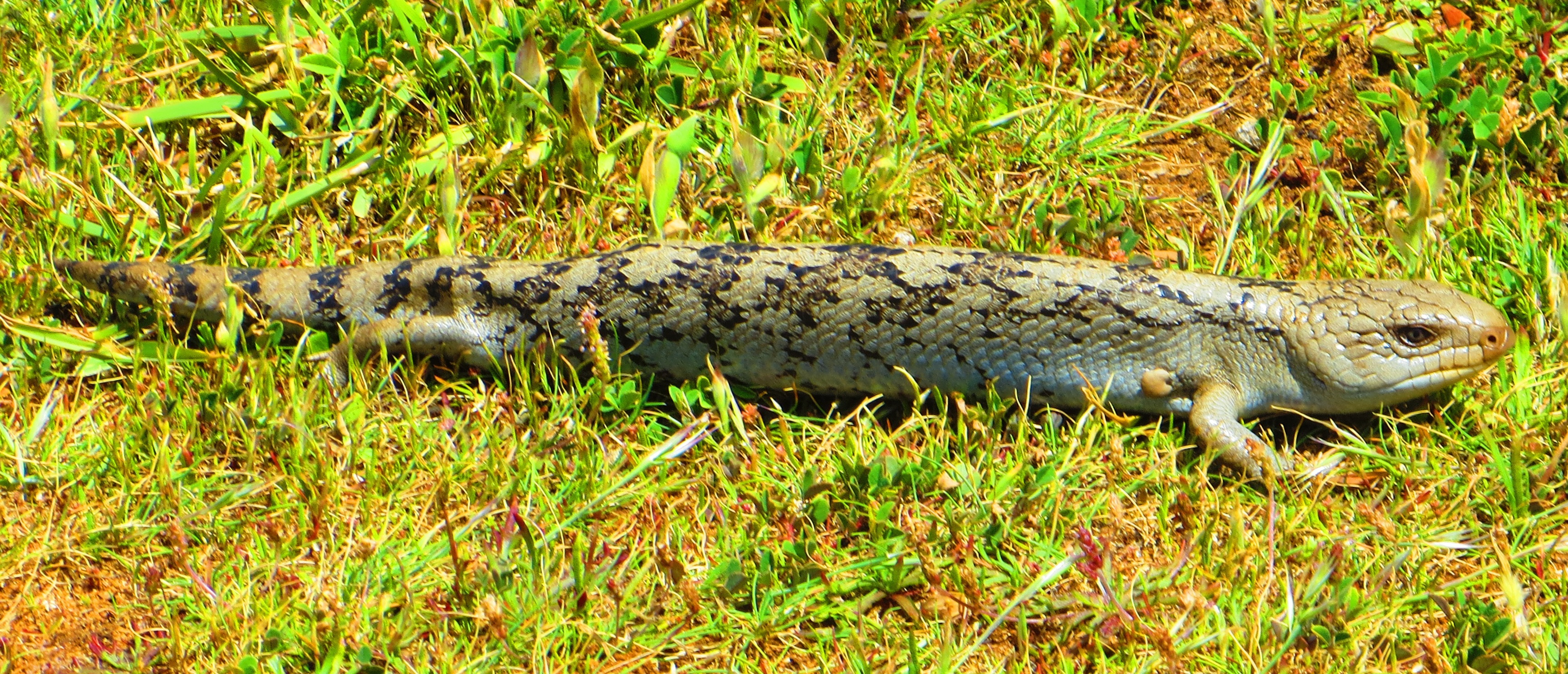 Blotched blue-tongued lizard (Tiliqua nigrolutea), Murnanes Bay, Bay of Islands Coastal Park, Victoria, Australia